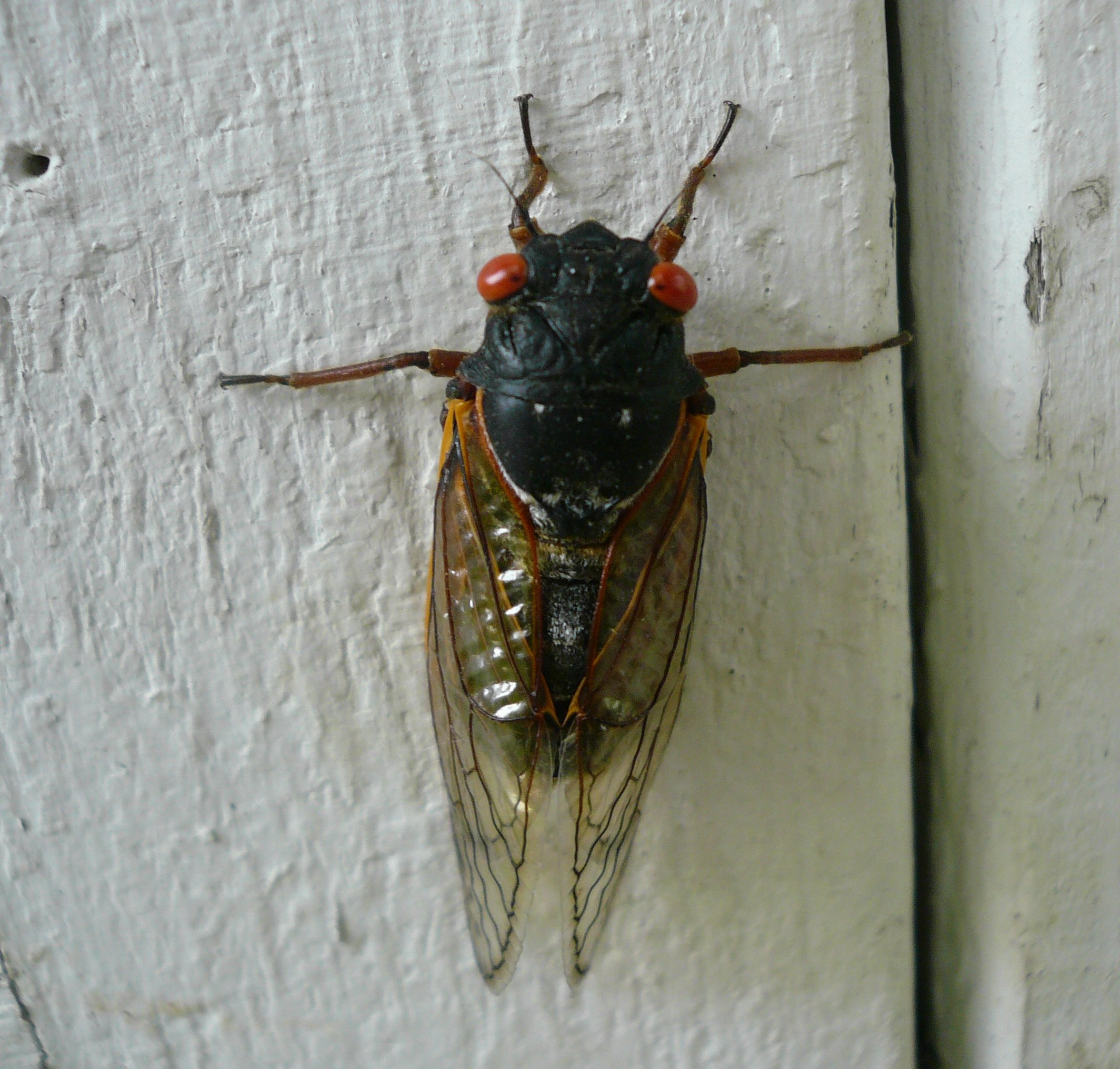 Brood XIII Magicicada septendecim 17 year cicada, from the south suburbs of Chicago.